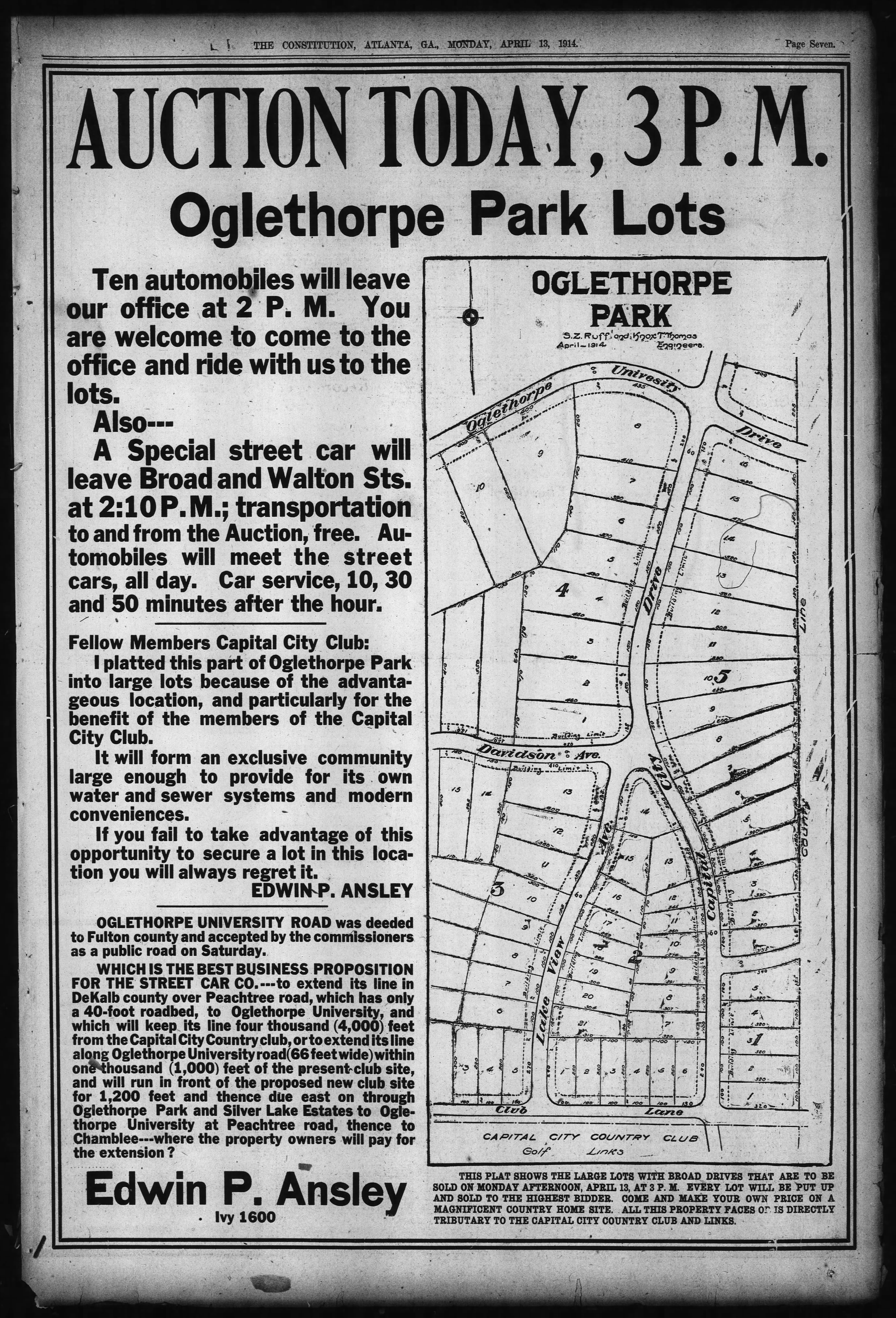 Ad in Atlanta Constitution, April 13, 1914, offering Oglethorpe Park lots for sale, today part of Brookhaven